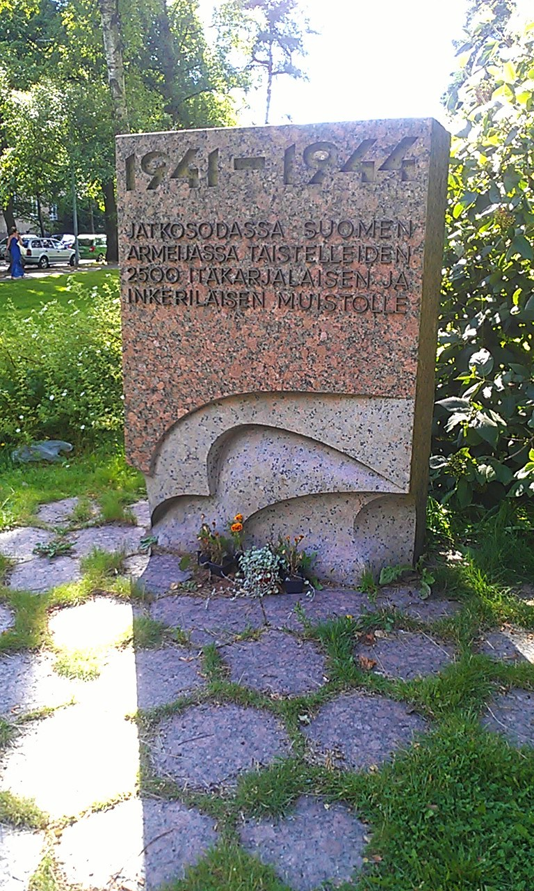 A monument commemorating World War II located in Sibelius Park, Helsinki.